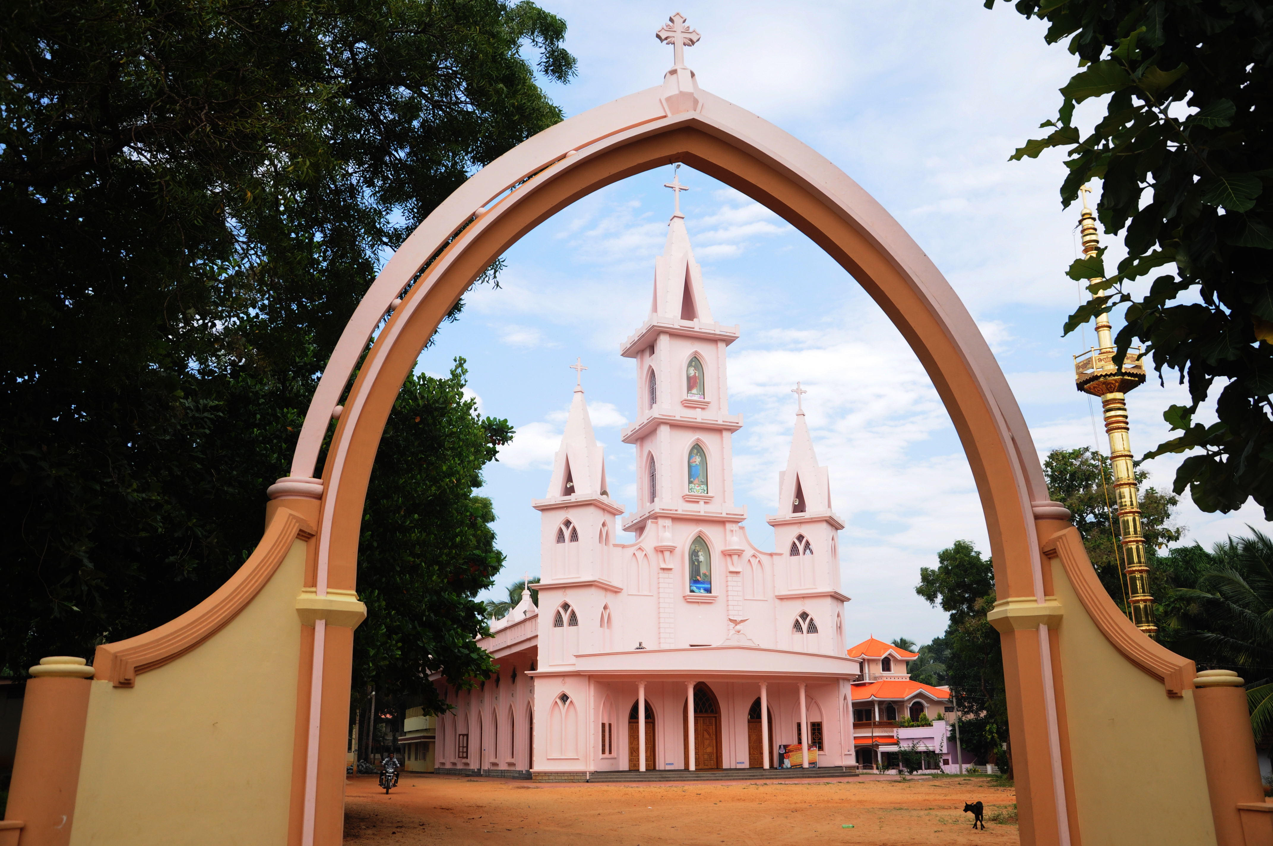 The picture shows the view of the St.Antony Church in Chemmanvilai Village.